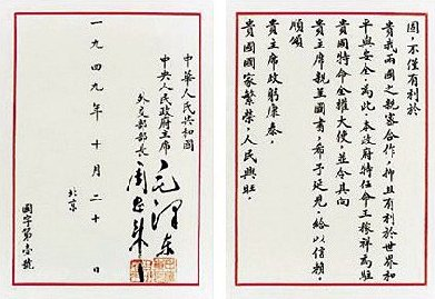 The first credential of the P. R. China, appointing Wang Jiaxiang ambassador to the USSR